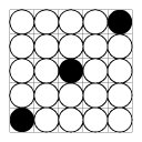 Diagram of setup for the game "Three Musketeers."